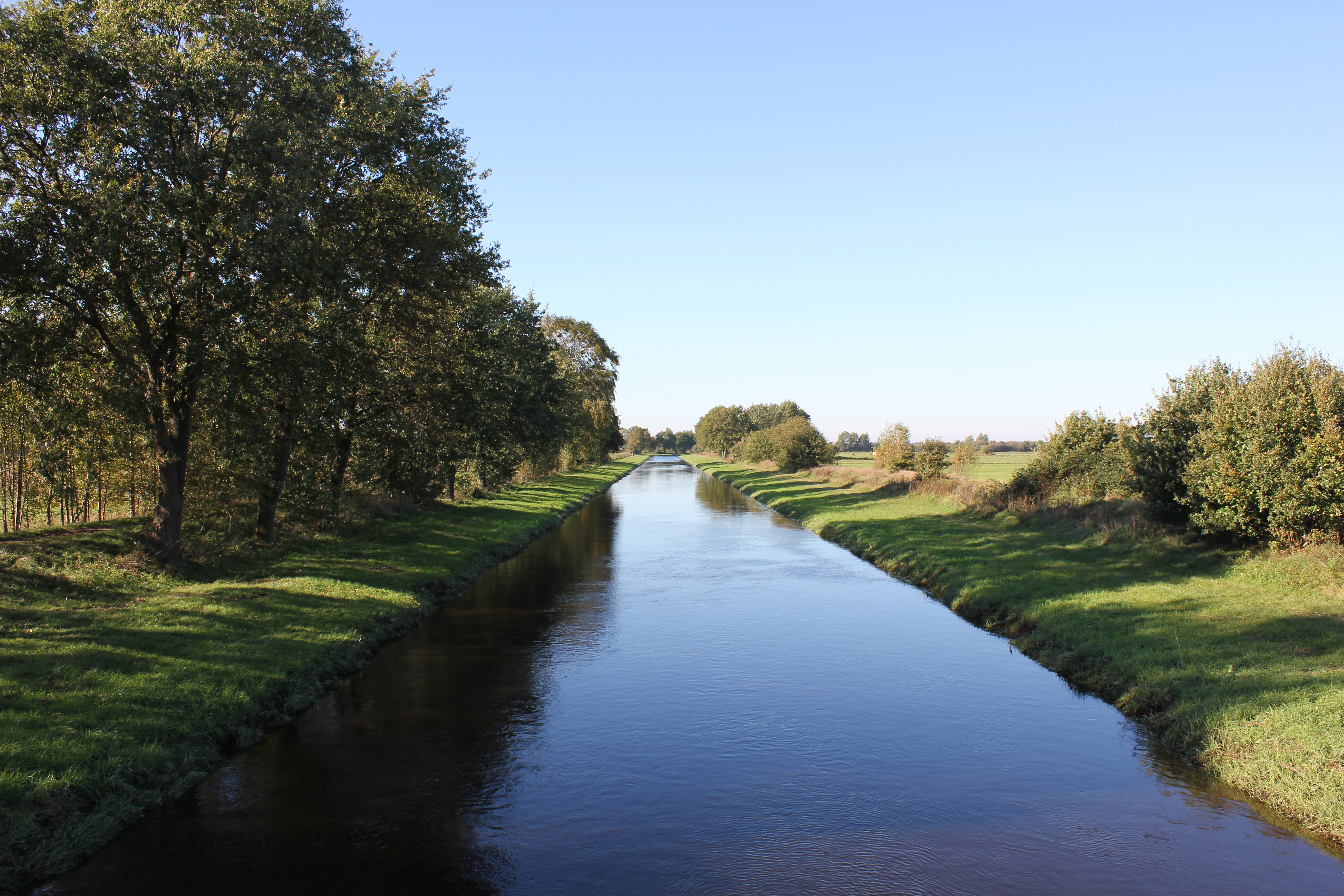 Southern arm of the river Wümme